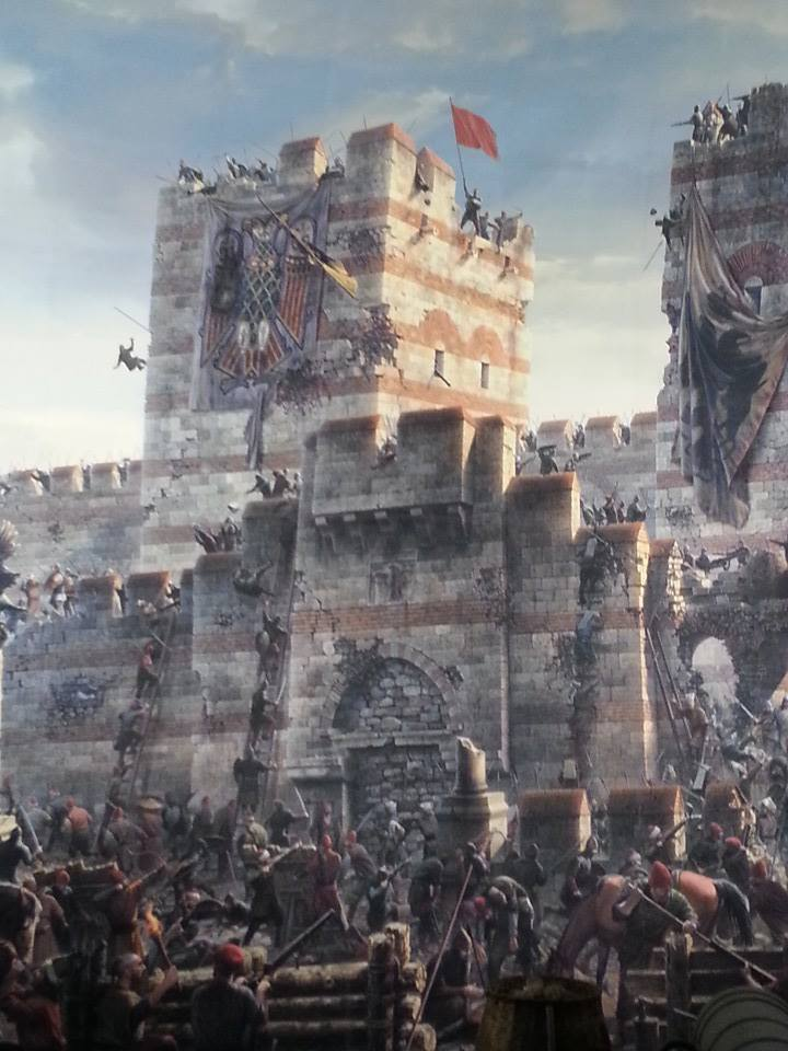 A 3D Wall Painting From Panorama 1453 History Museum, showing the Final Ottoman Assault on Constantinople. Ulubatlı Hasan aapears on the top of the tower fixing the Ottoman Banner.